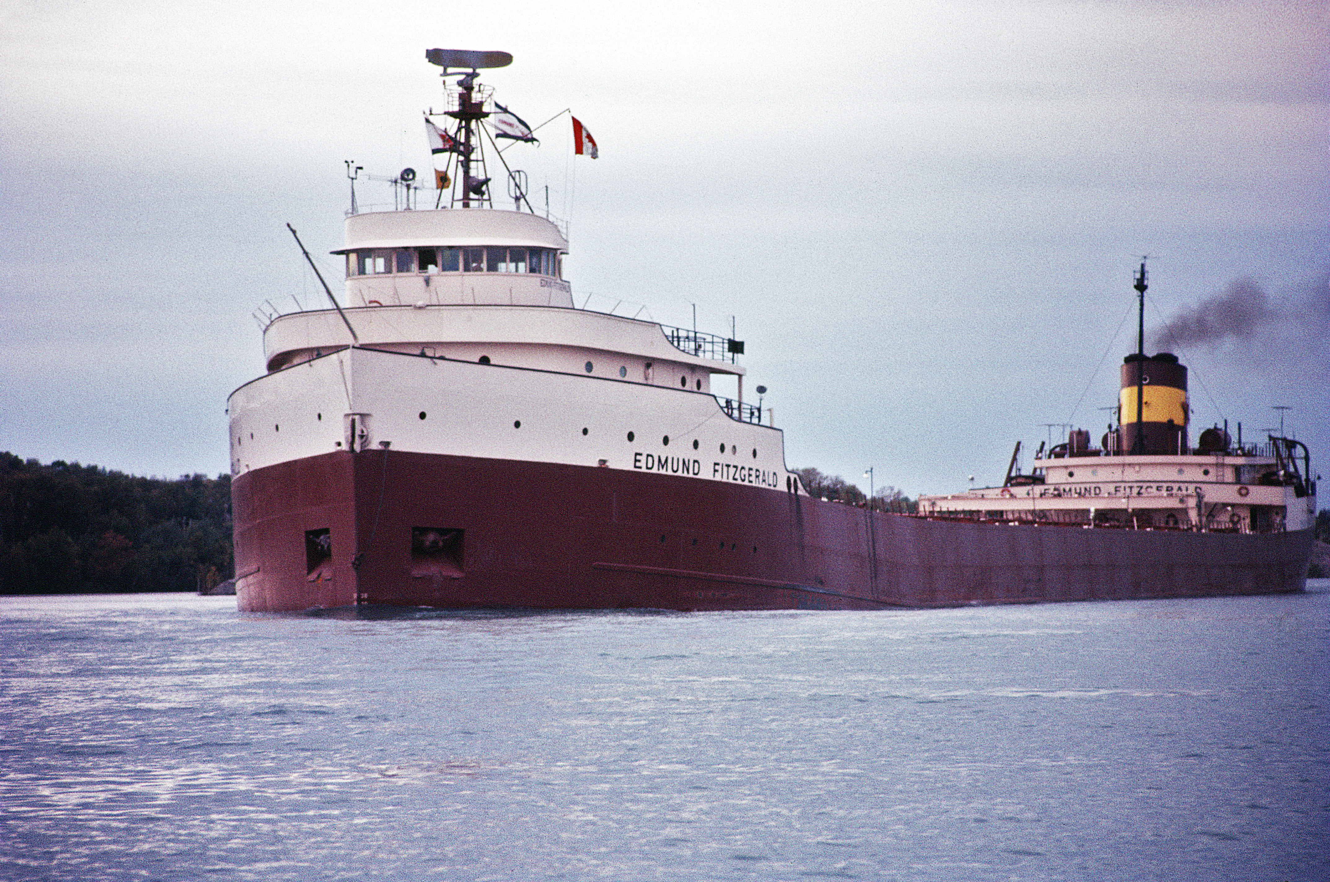 Edmund Fitzgerald, 1971